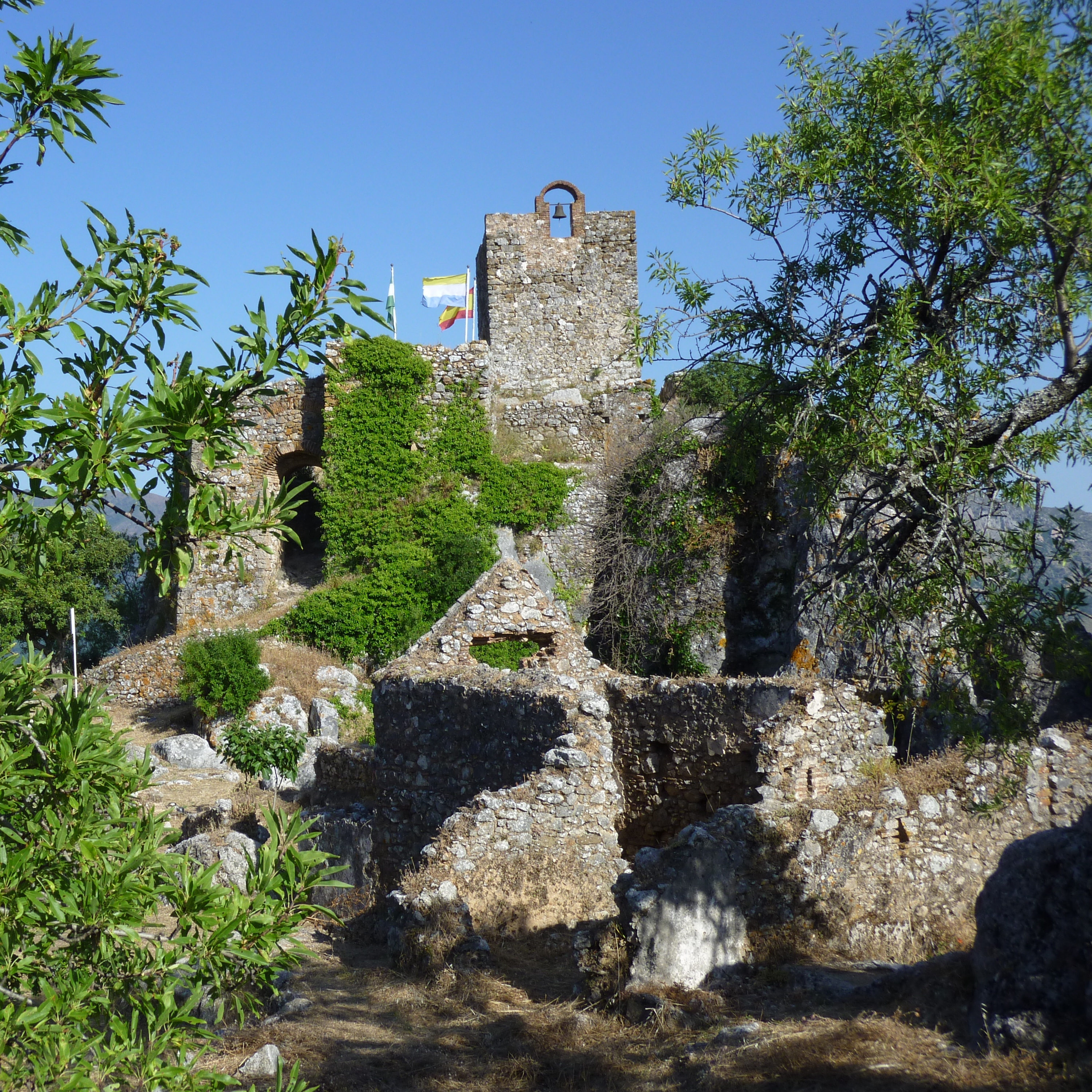 Gaucín, inside the Castillo del Aquila